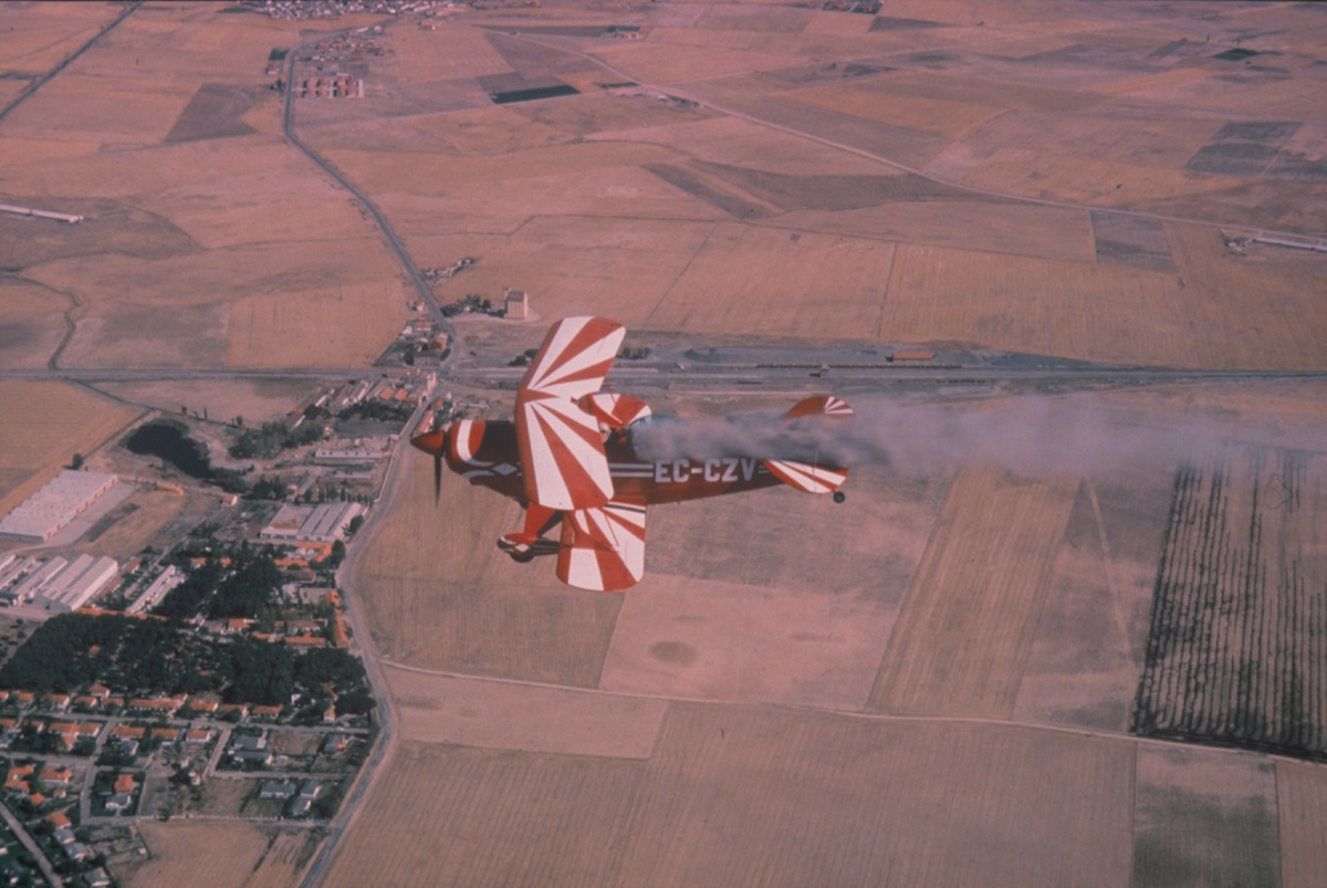 Spreading the funeral ashes of Eduardo Castellanos Fuillerat, El Pira, on the Sanchidrian airfield.